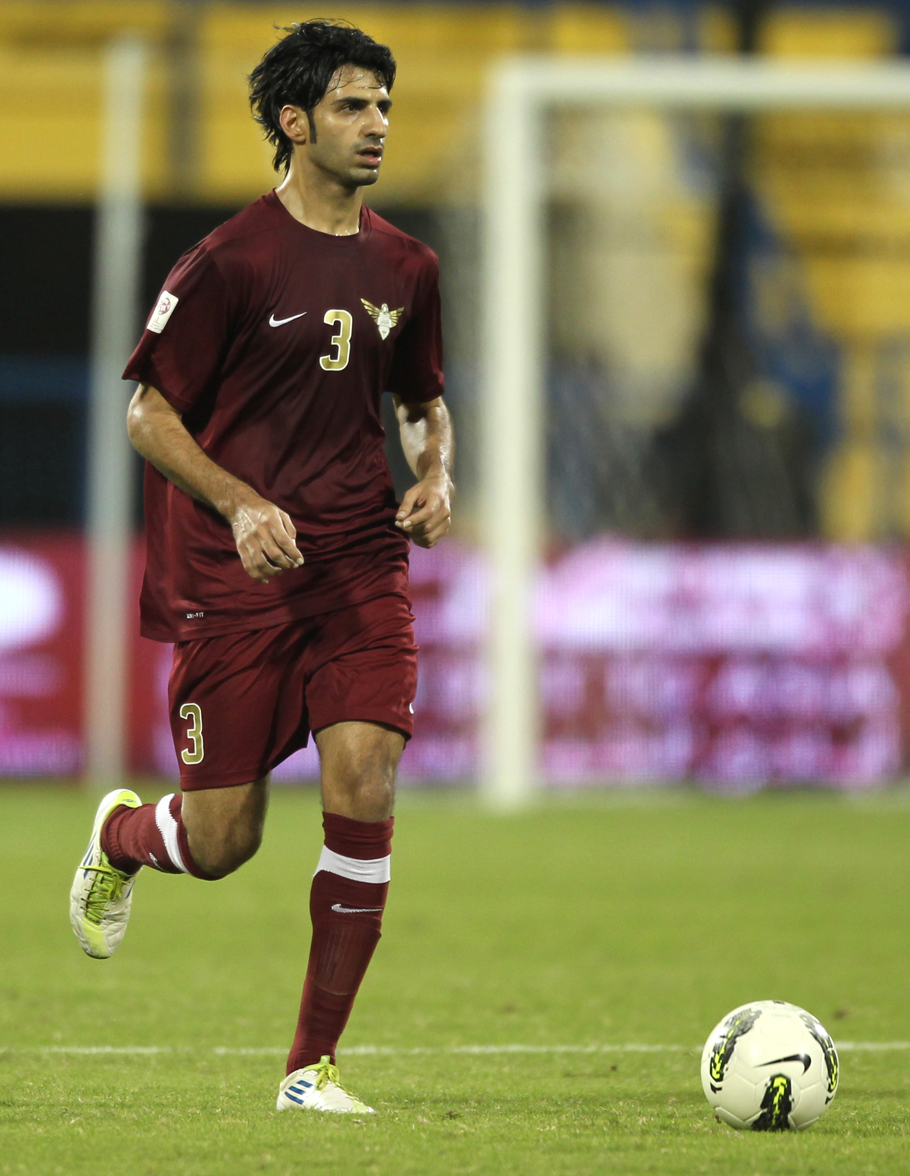 El Jaish's Bahraini international Husain Baba moves with the ball during a Qatar Stars League match in 2011. Pic by Mohammed Dabbous